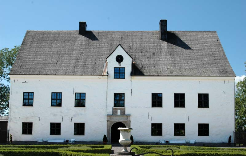 The old manor at Bjärka-Säby, Östergötland, Sweden